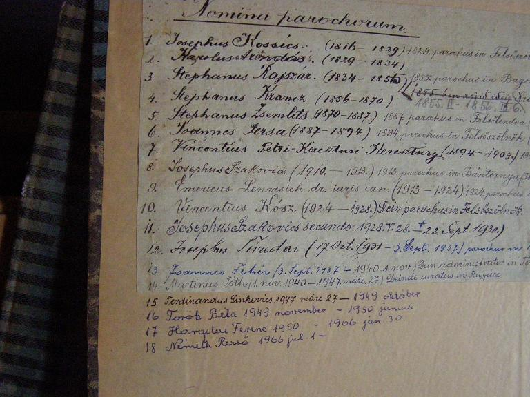 The list of priest's of village Alsószölnök, amid József Kossics, István Zsemlits, Imre Lenarsich and József Szakovics writers